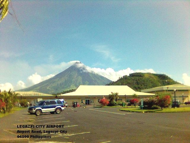 From Author: Six (User:Sixtango4)